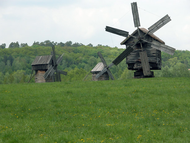 Open-Air museum of Folk Architecture and Ethnography of Ukraine photo by: Vladimir Barbul